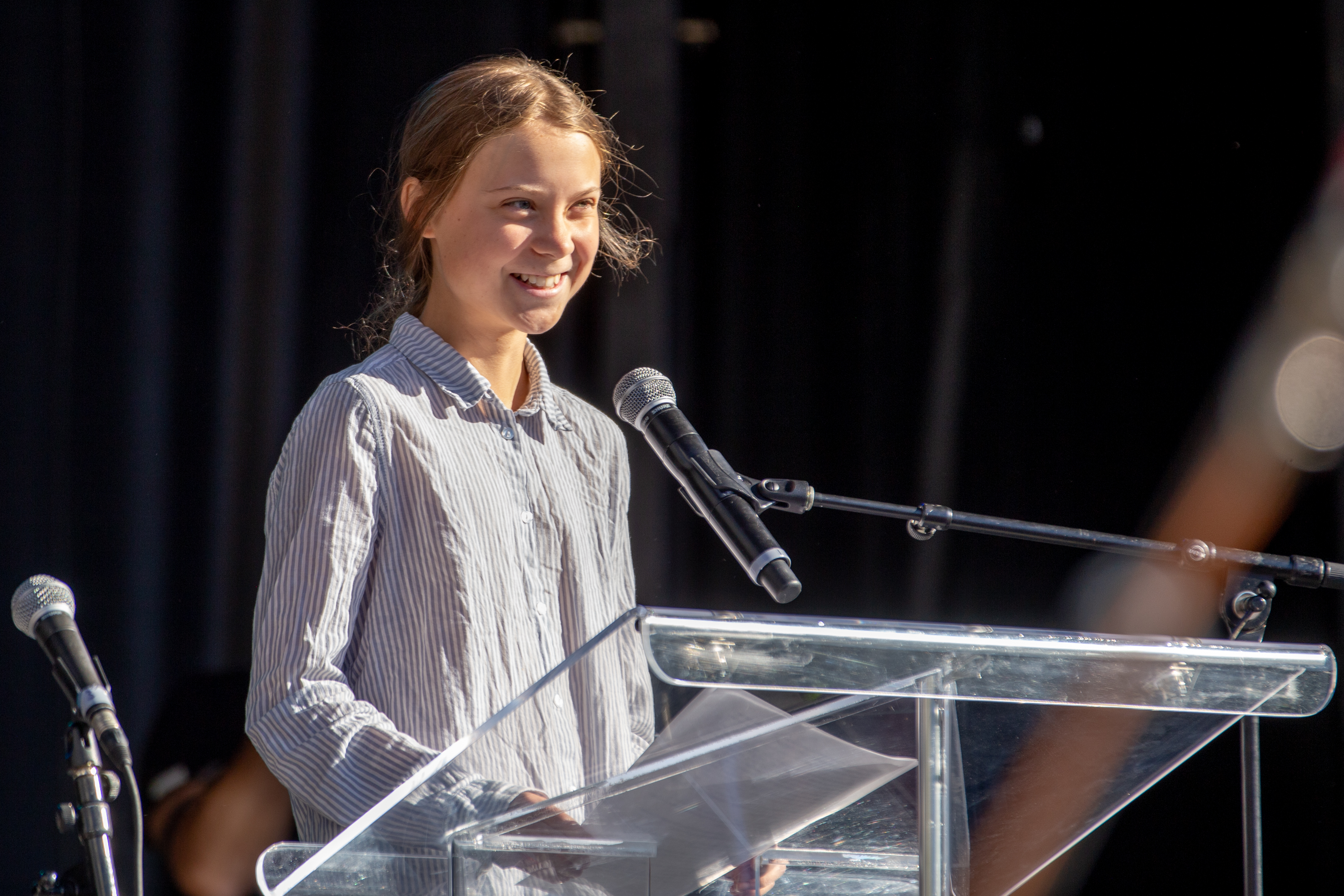 Greta Thunberg at the Climate March of 27 September 2019 in Montreal.